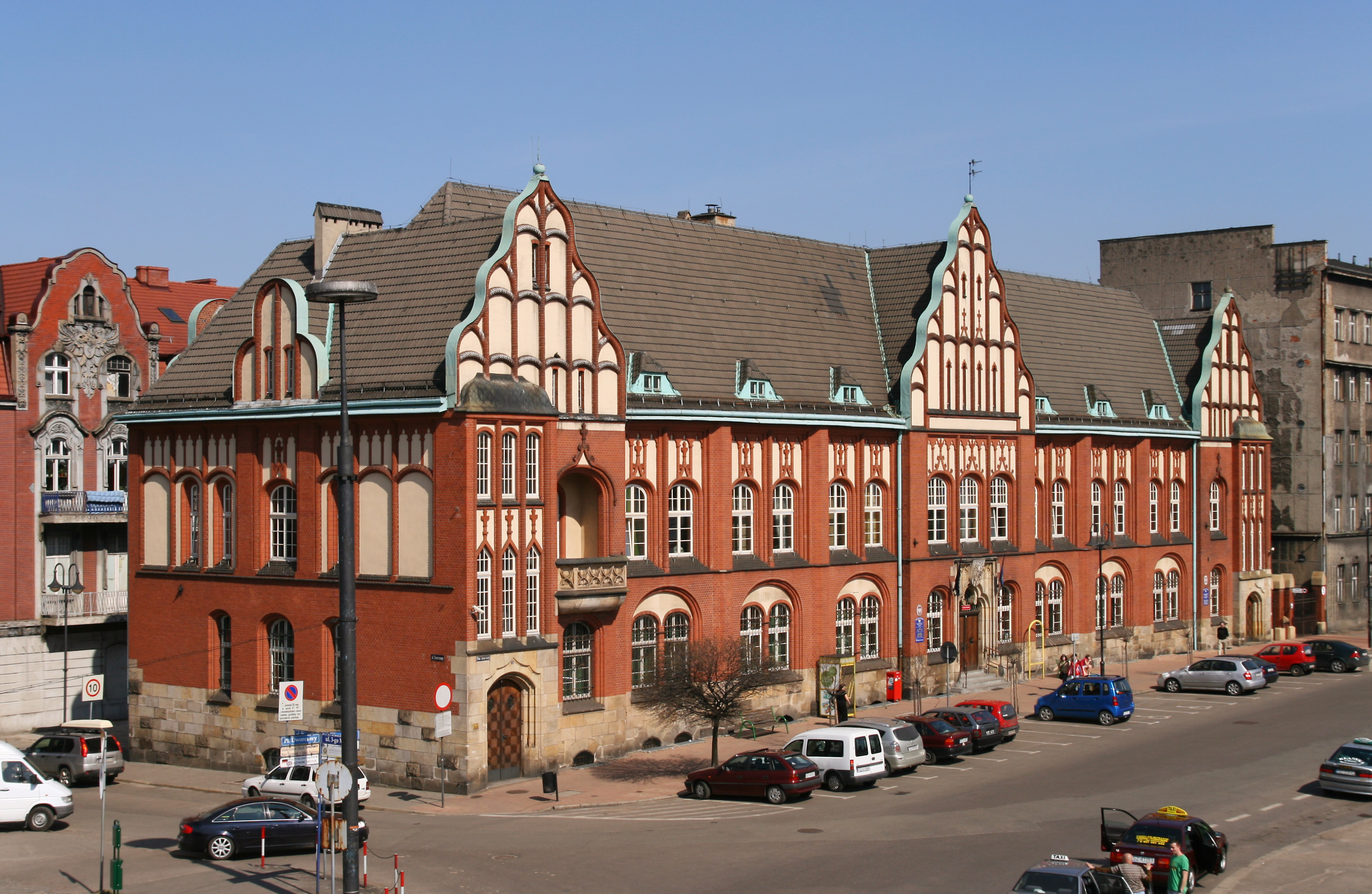 Post Office in Zabrze (Upper Silesia).